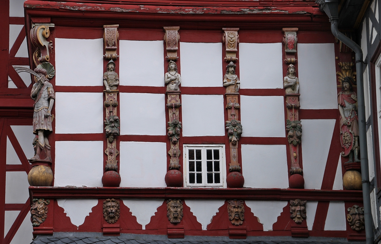 Herzberg (Harz): detail of the timber framed tower of Herzberg Castle.